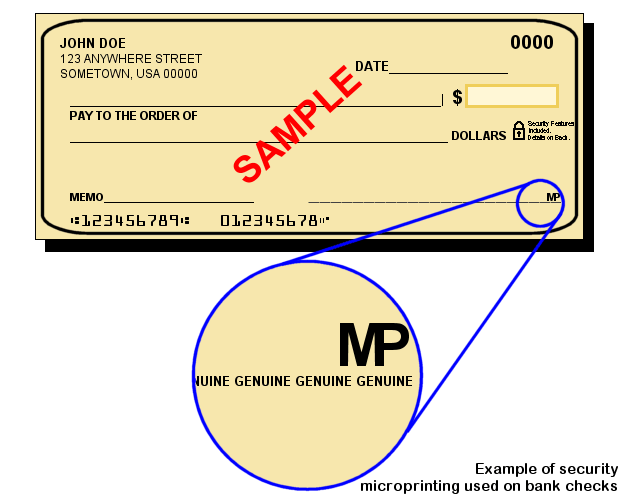 Example of security microprinting on a bank check, created by the uploader Torin Darkflight.